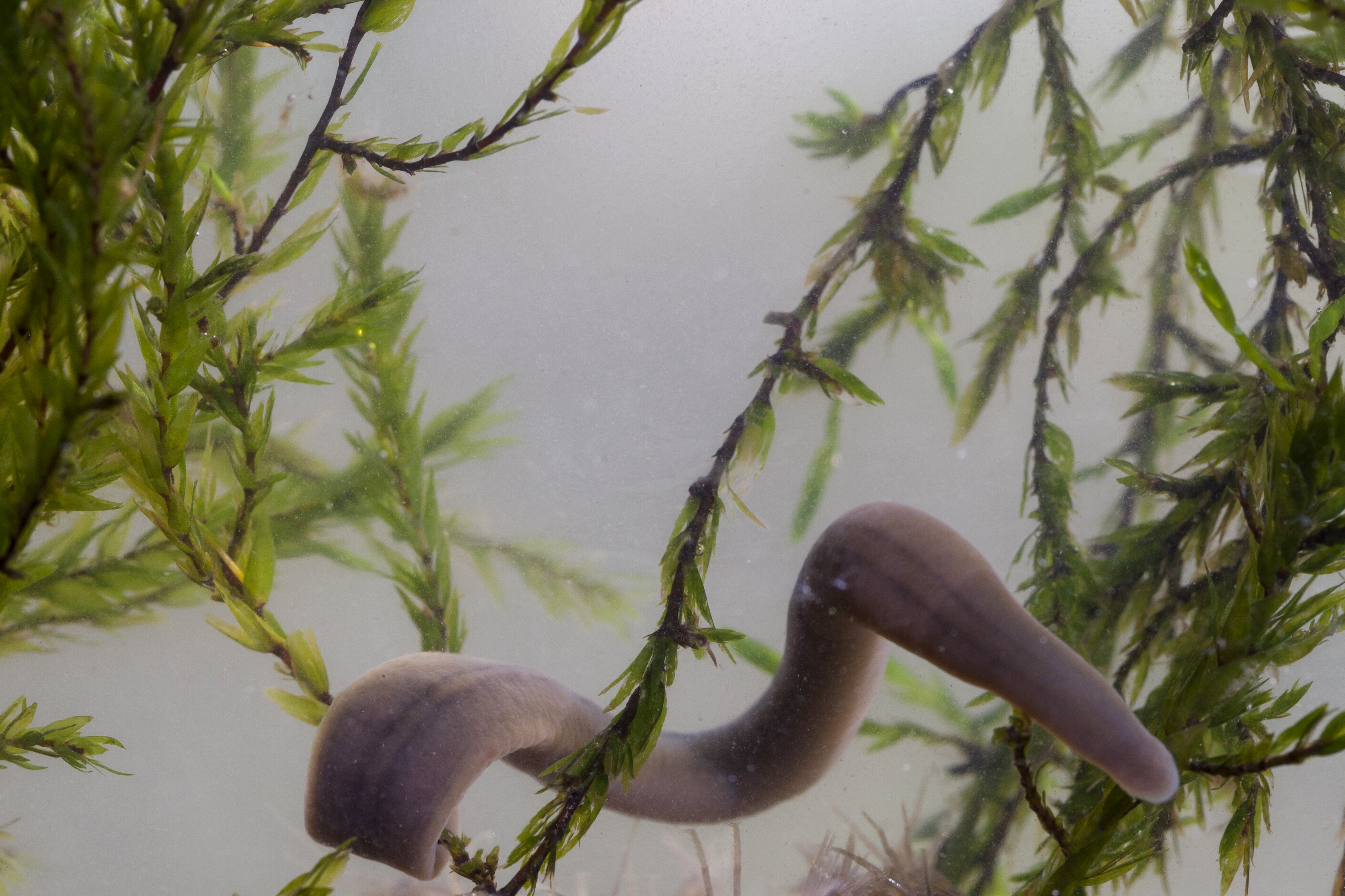 Leech Underwater at watermass